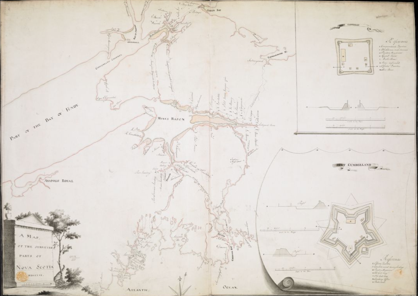 A manuscript map of Nova Scotia (including parts of present-day New Brunswick) produced during the period of the Expulsion of the Acadians (the Great Upheaval) by Engineer John Brewse.